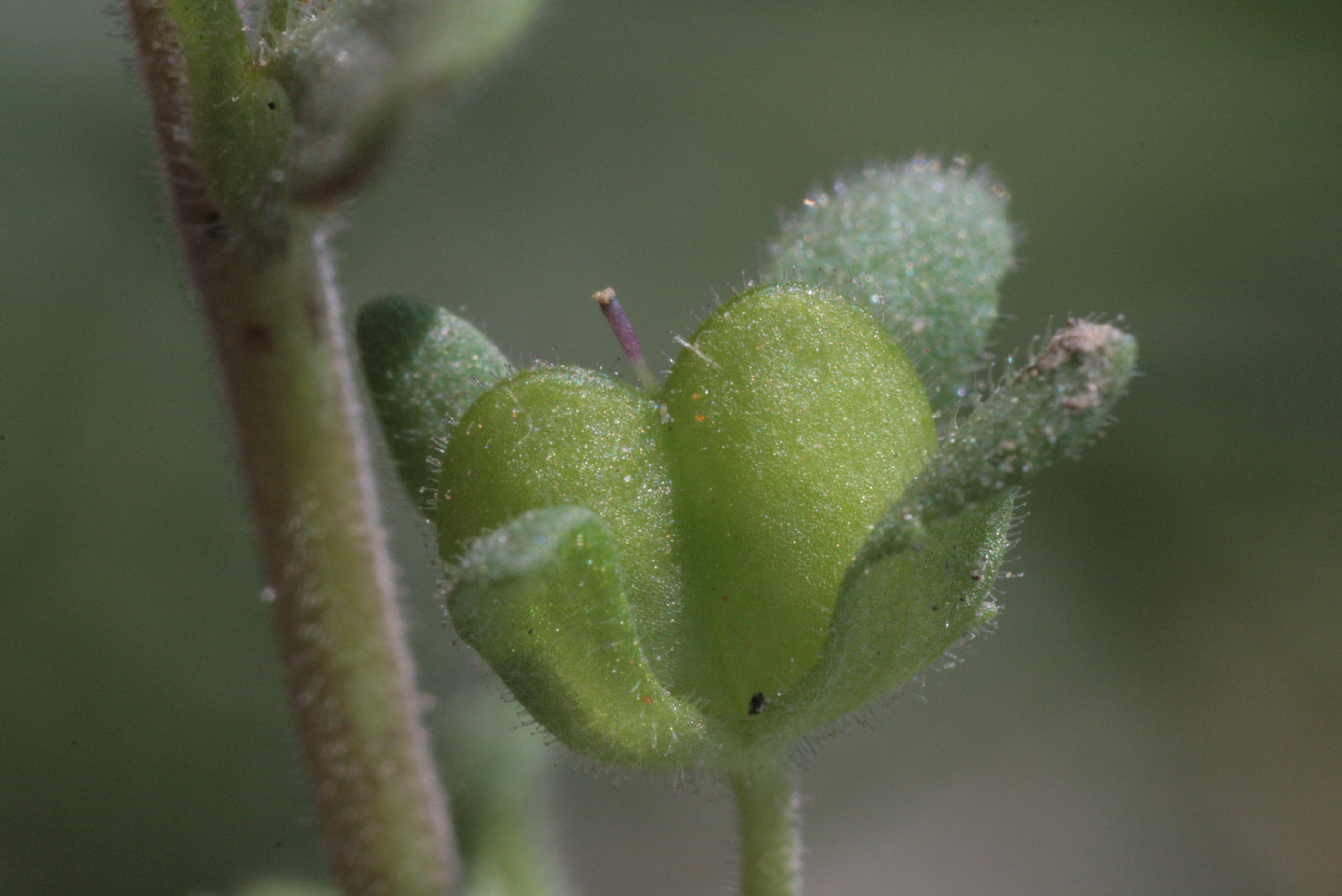 Veronica triphyllos